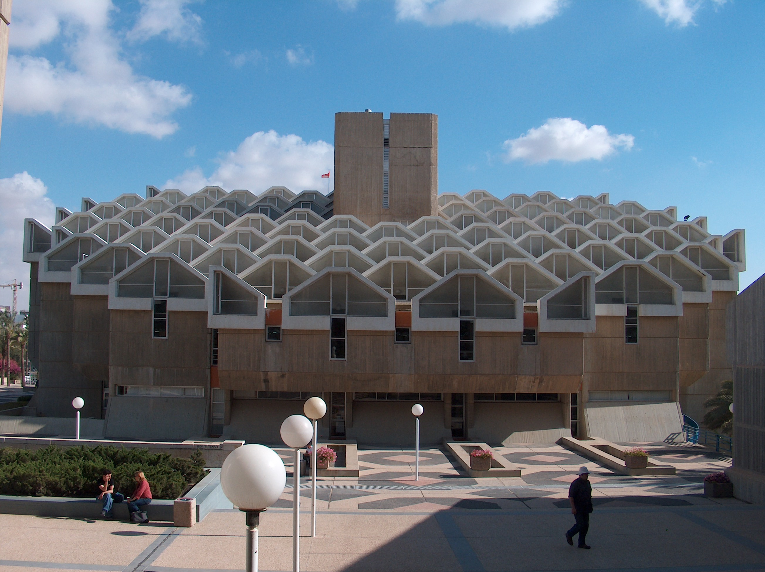 Zalman Aran library on the campus of Ben-Gurion University of the Negev, Beersheba